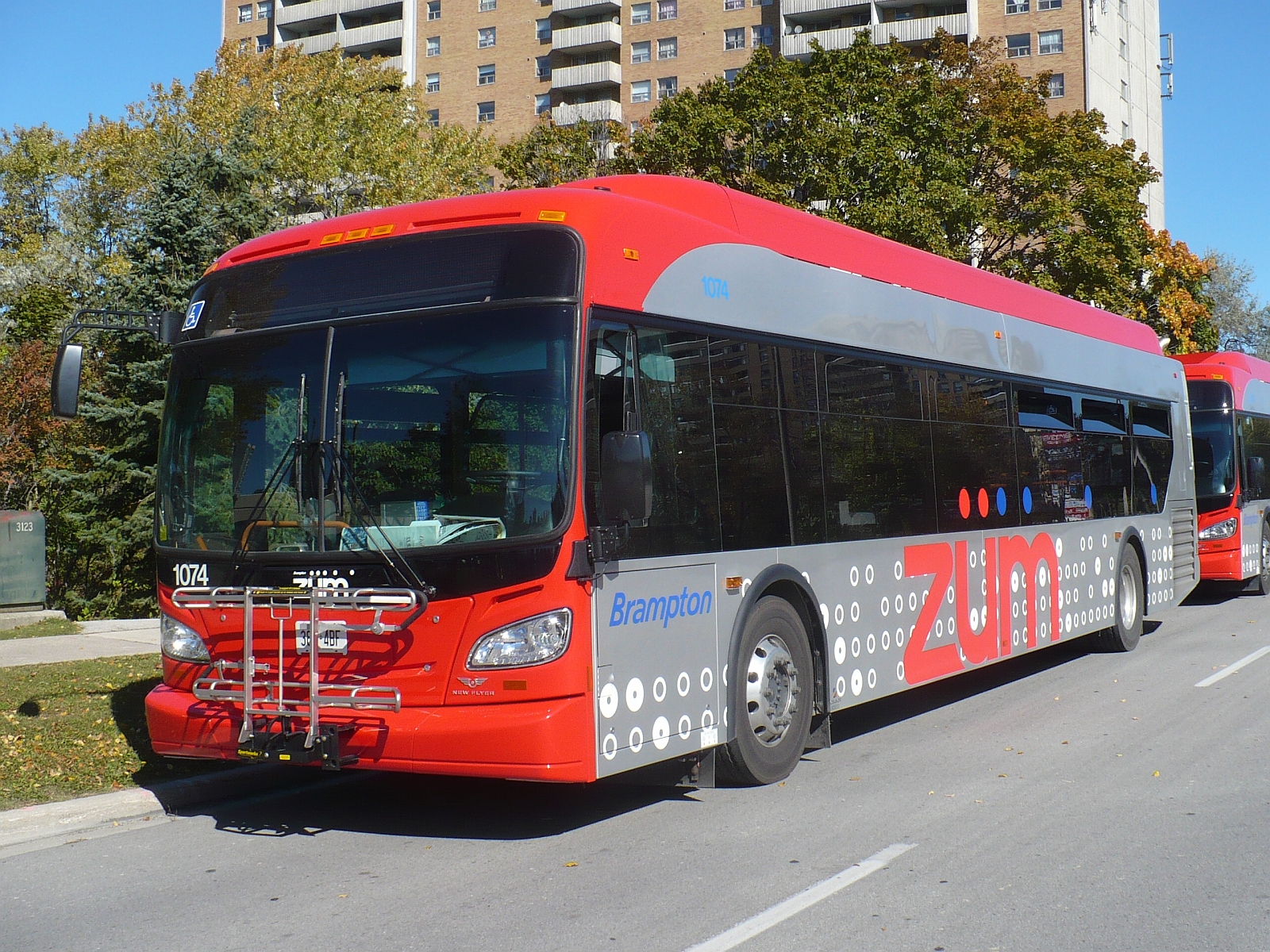 Brampton Zum bus 1074